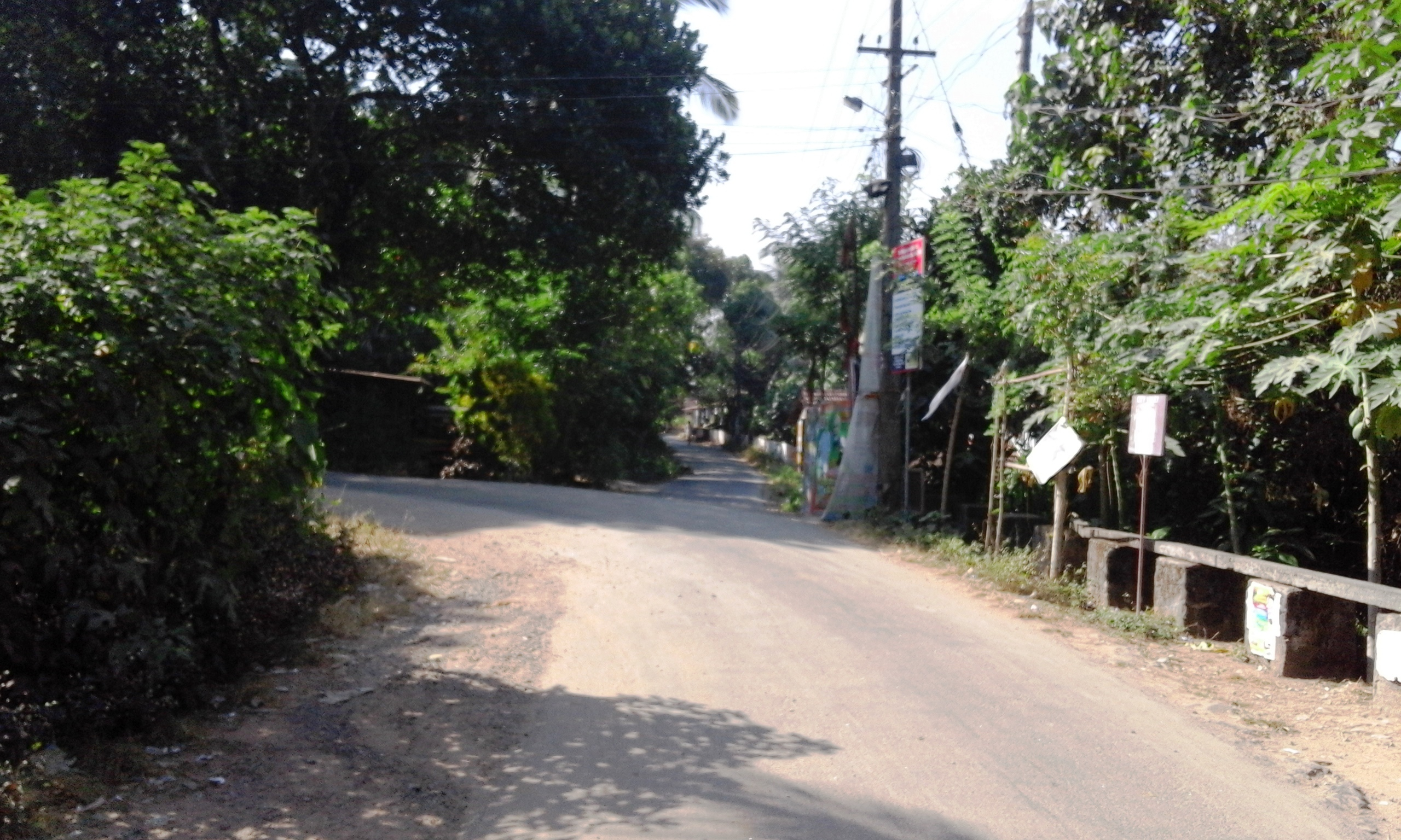 Pallippuram, Pattambi, Palakkad District, Kerala, India